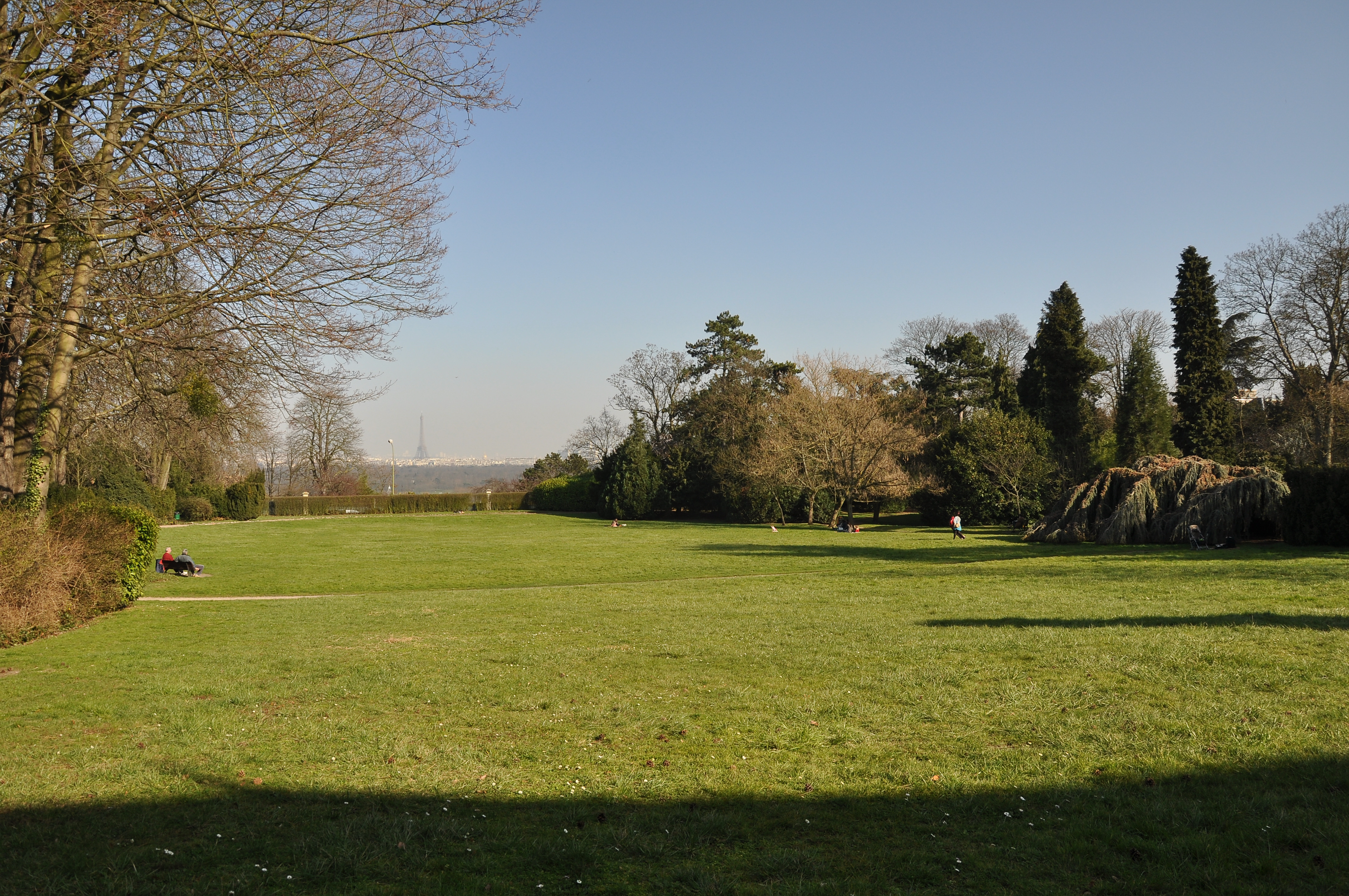 View towards Paris from the garden Jardin des Tourneroches in Saint-Cloud, Hauts-de-Seine department, France.